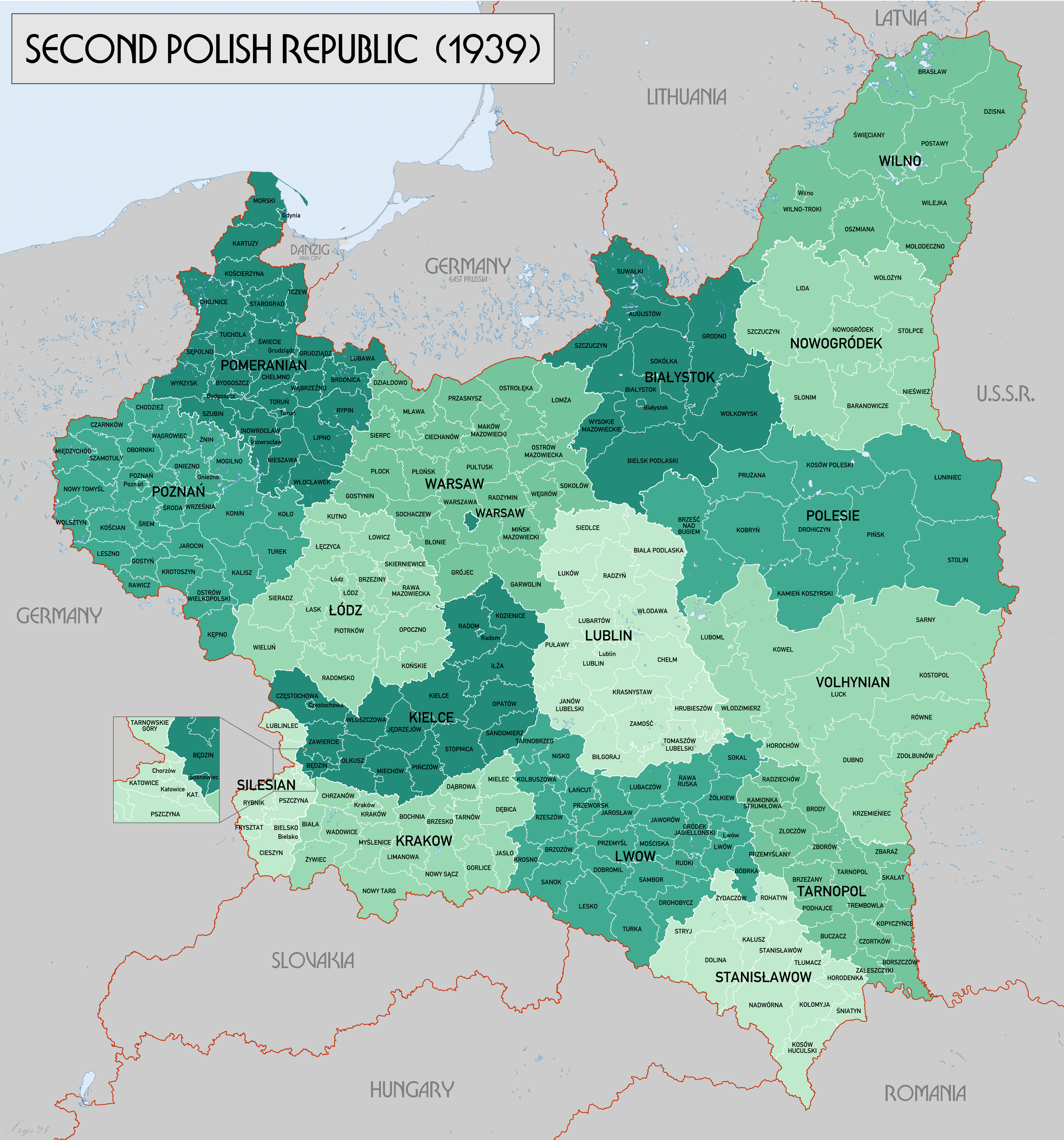 English language version of File:RzeczpospolitaPolska1939.png